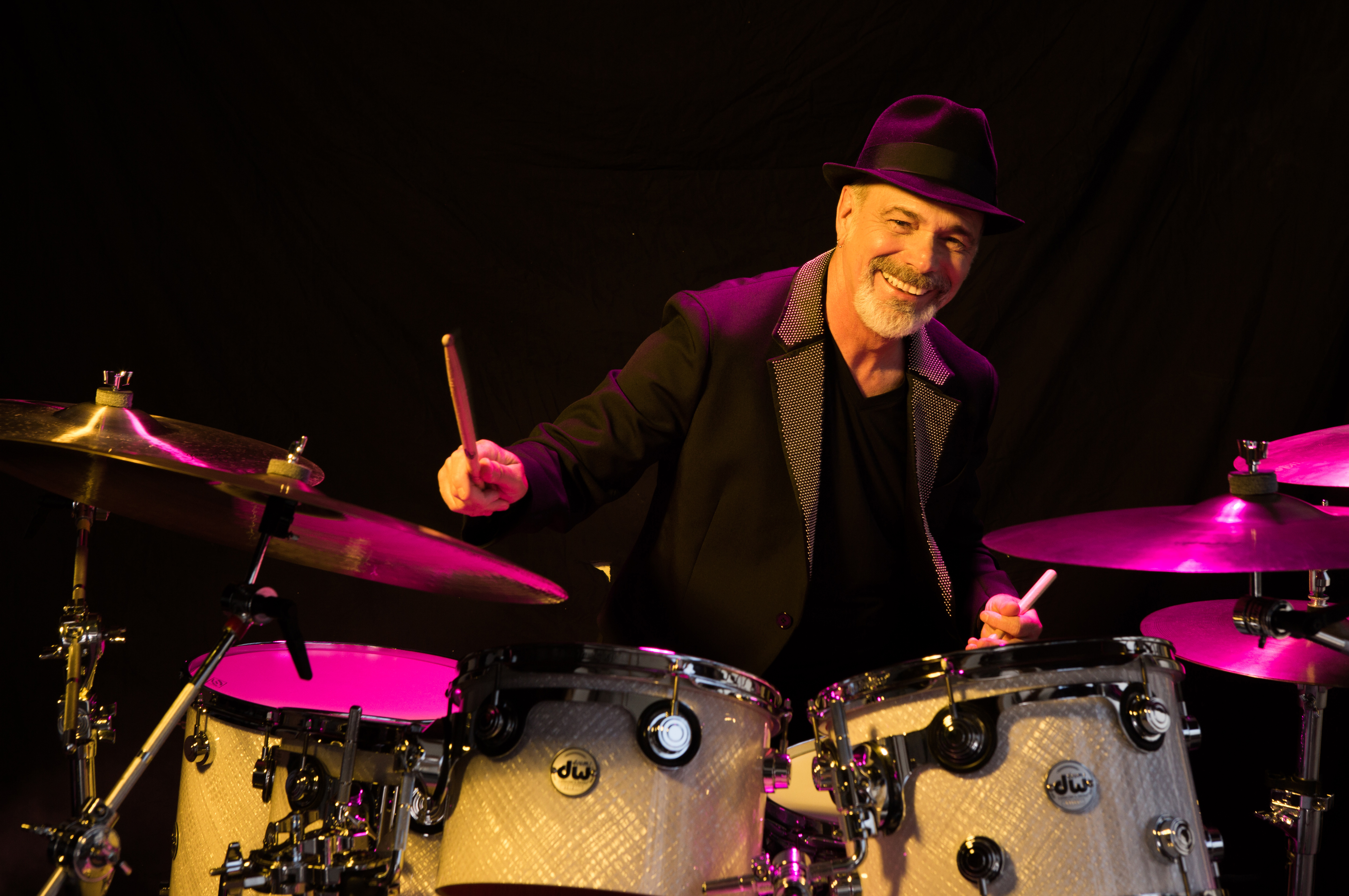 Photo by Stephen Busken